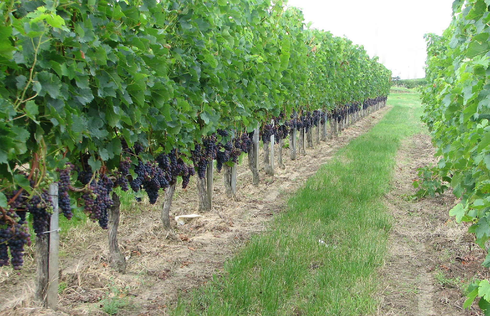 Merlot grapes growing the French wine region of Bourg AOC on the right bank of Bordeaux.